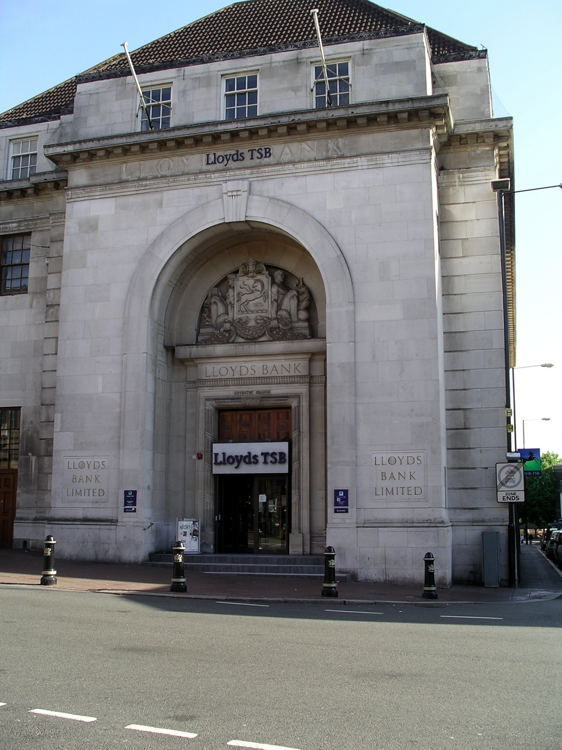 Photo of Lloyds TSB Bank in Coventry City Centre, England.